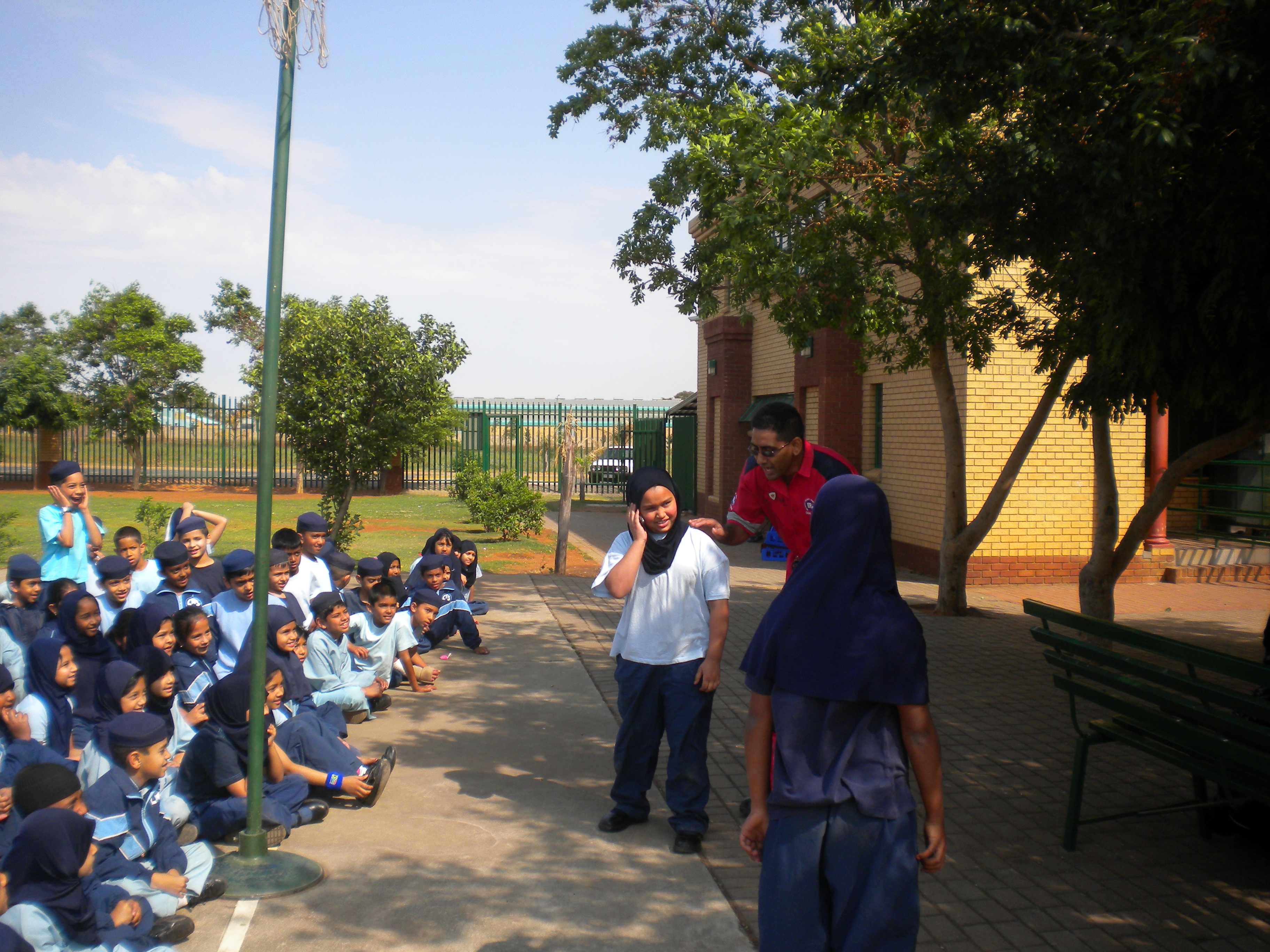 ER24's Johannesburg South Branch did a CPR demonstration at the Lenasia Muslim school. The grade 1's and 2's were overly enthusiastic, especially when their class mates were called up to show us how it was done! The morning was a great success, and we were invited back by the headmaster to continue with the other grades. Thanks to all involved, what a lot of fun!